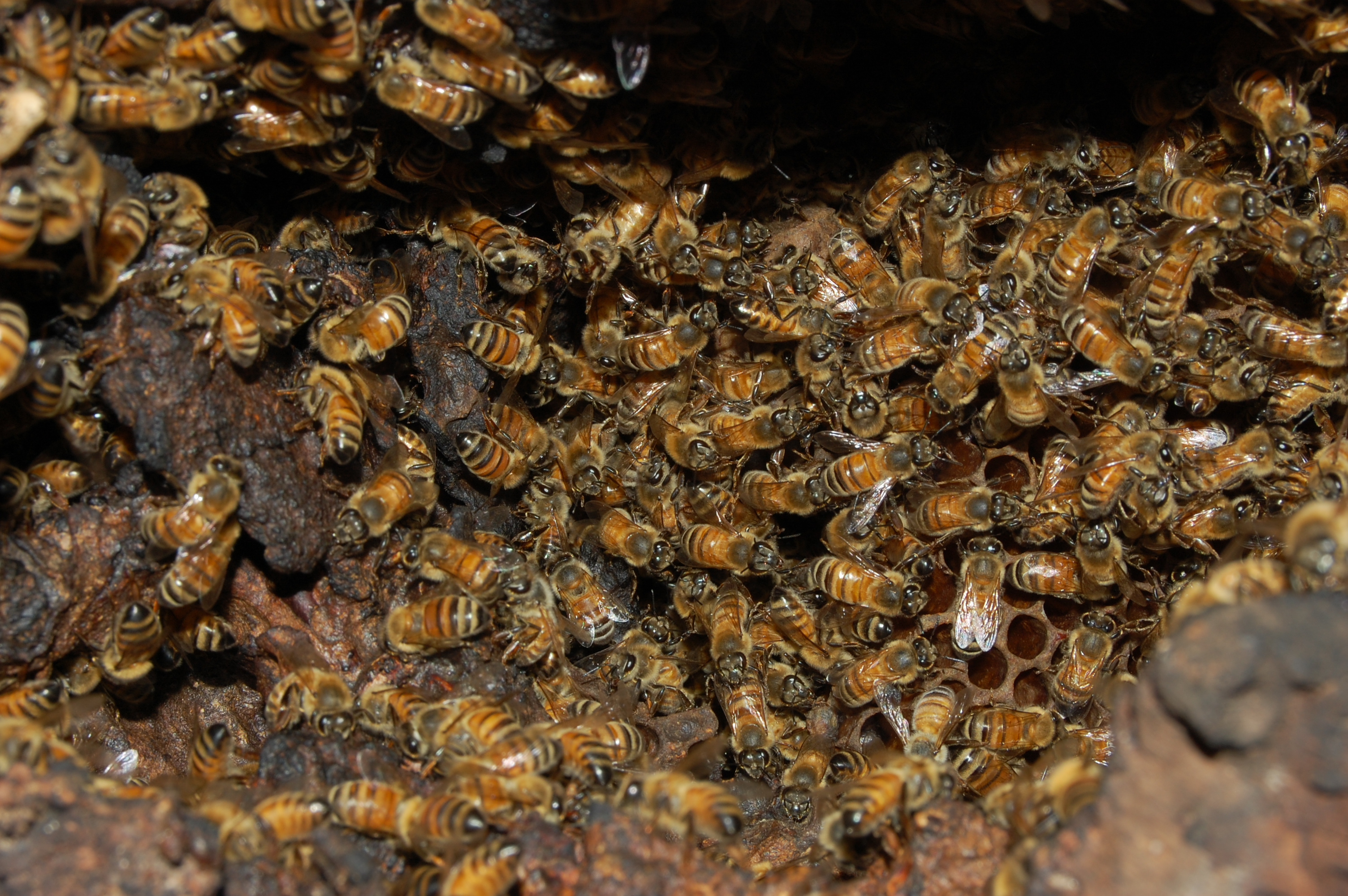 Western honey bee nest